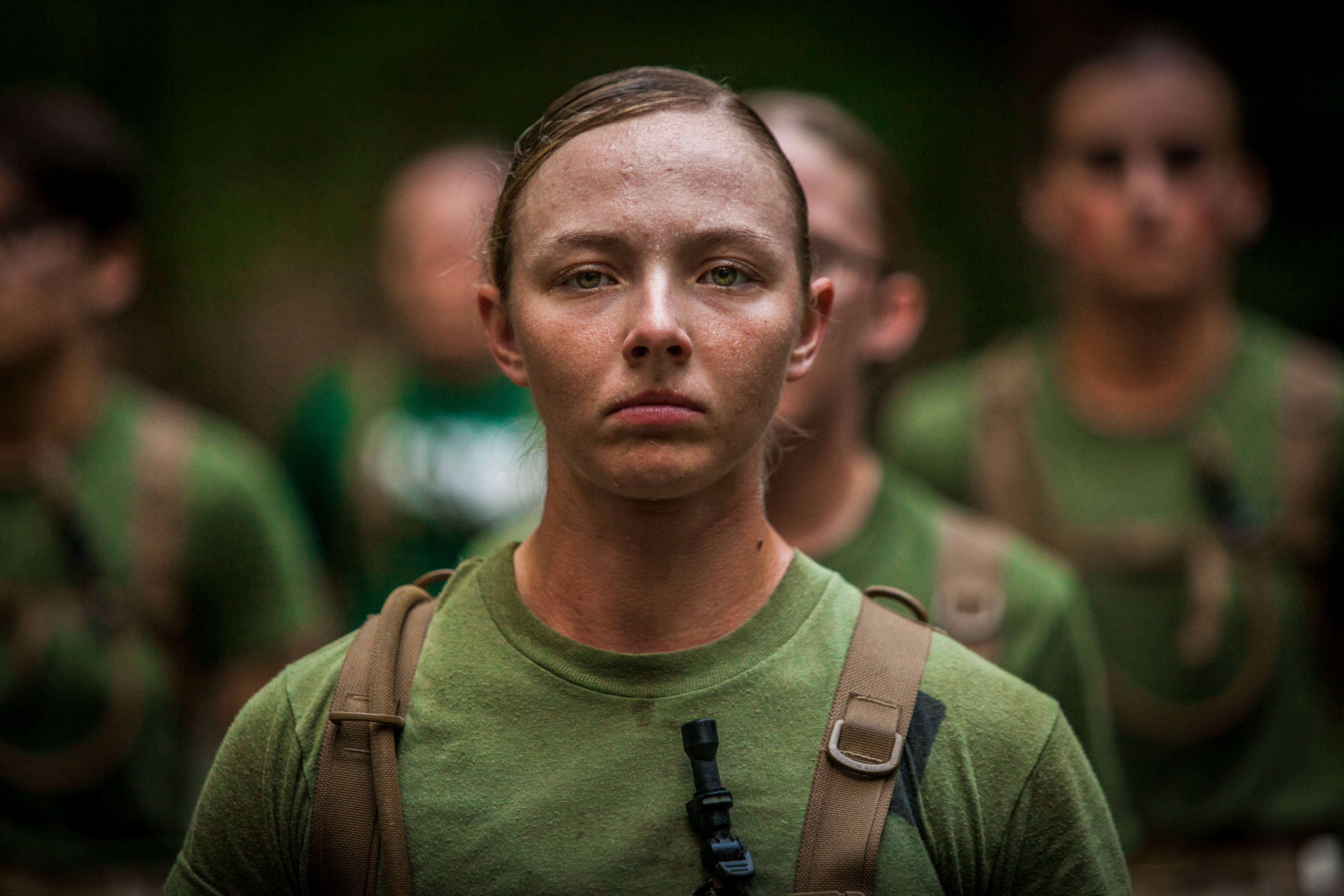 An officer candidate stands at attention during the Medal of Honor run at Officer Candidates School aboard Marine Corps Base Quantico, Virginia, August 15, 2019. The mission of Officer Candidates School is to educate and train officer candidates in Marine Corps knowledge and skills within a controlled and challenging environment in order to evaluate and screen individuals for the leadership, moral and physical qualities required for commissioning as a Marine Officer. (U.S. Marine Corps photo by Lance Cpl. Phuchung Nguyen)